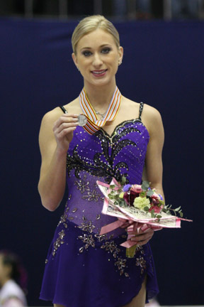 Joannie Rochette during the ladies medals ceremony at the 2008 Four Continents Figure Skating Championships. She won the silver medal at this competition.